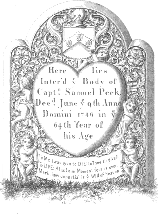 Tombstone of Capt. Samuel Peck, Palmer's River churchyard, Rehoboth, Massachusetts. Capt. Peck was born at Hingham, Massachusetts, the son of Joseph Peck, brother of the Rev. Robert Peck, first teacher at the congregation of Old Ship Church. Capt. Peck was baptized February 3, 1638, at Hingham by the Rev. Peter Hobart and by Rev. Robert Peck, his uncle. Samuel Peck removed with his father Joseph to Seekonk. Capt. Samuel Peck later served as a representative to the Massachusetts General Court, deacon of the church, Deputy of the General Court at Plymouth in 1689 and 1692, as well as the first representative to the General Court from Rehoboth after Plymouth Colony and Massachusetts were united. Capt. Peck's sister Elizabeth was the second wife of her cousin Capt. Samuel Mason, son of Capt. John Mason, soldier in the Pequot War and Deputy Governor of Connecticut